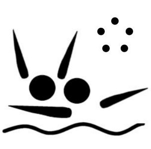 Rowing racing boats